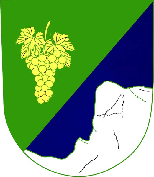 Municipal coat of arms of Skalka (Hodonín District) village, Hodonín District, Czech Republic.